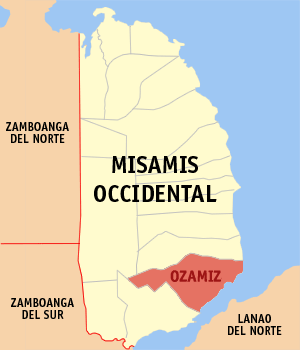 Map of the Misamis Occidental showing the location of Ozamiz